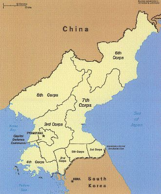 North Korea Forces map.